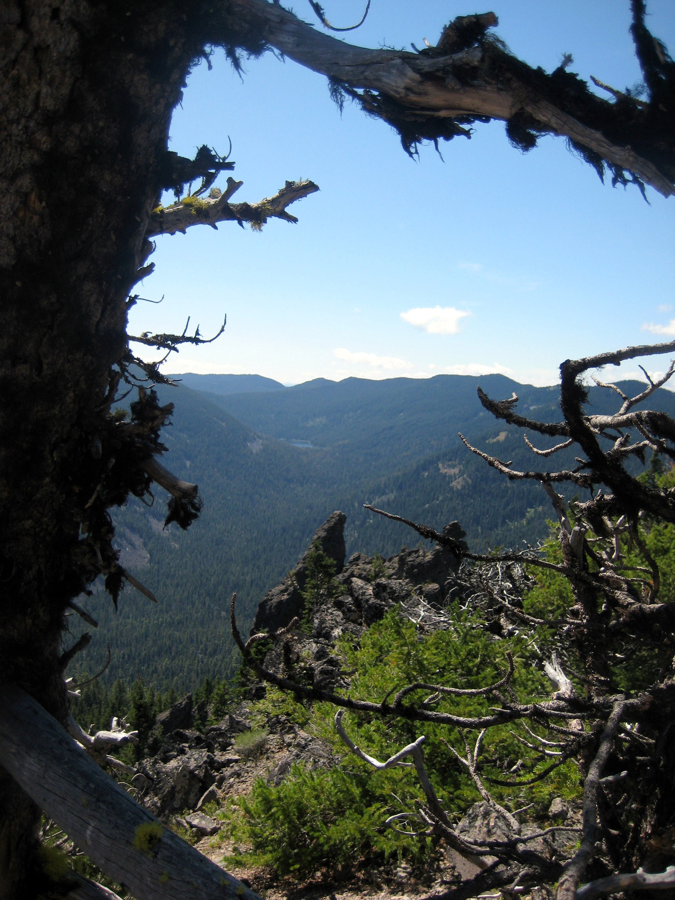 Badger Creek Wilderness in the Mount Hood National Forest. View south from the Divide Trail in the northern portion of the wilderness.